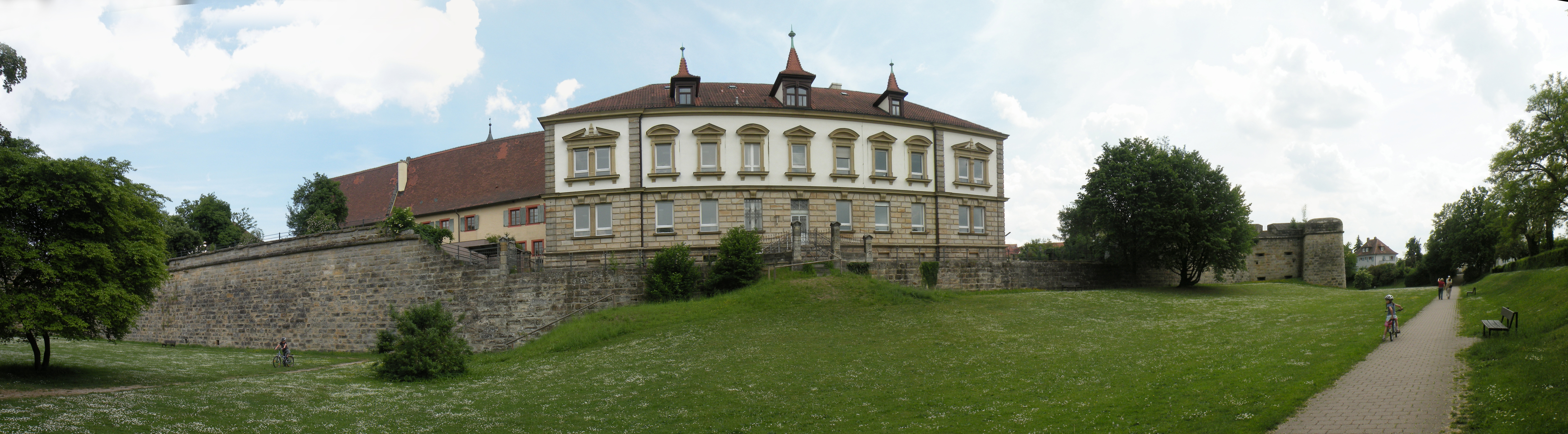 Town_wall